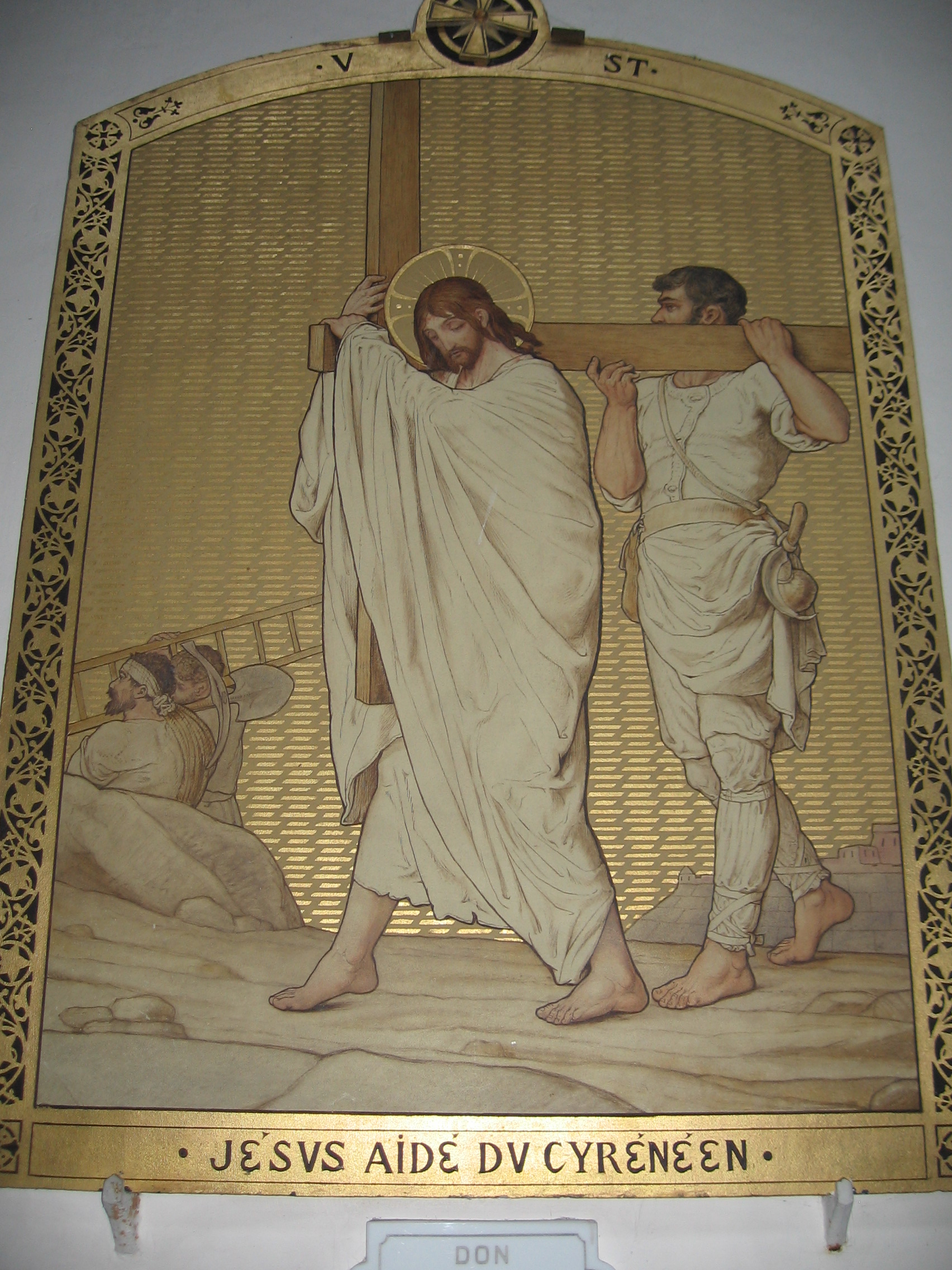 Station 5, of the way of the cross in the St, Hadelin church of Celles (Belgium)